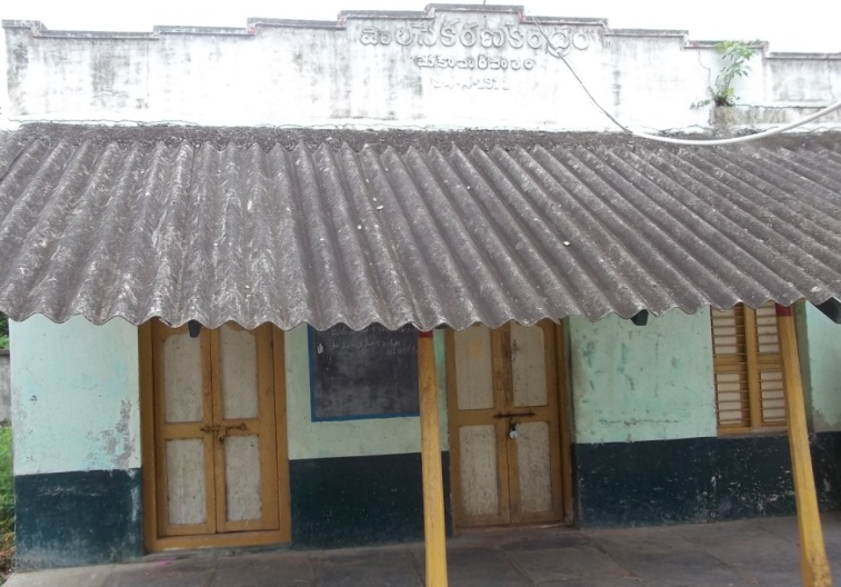 Milk Collection Center built in 1971